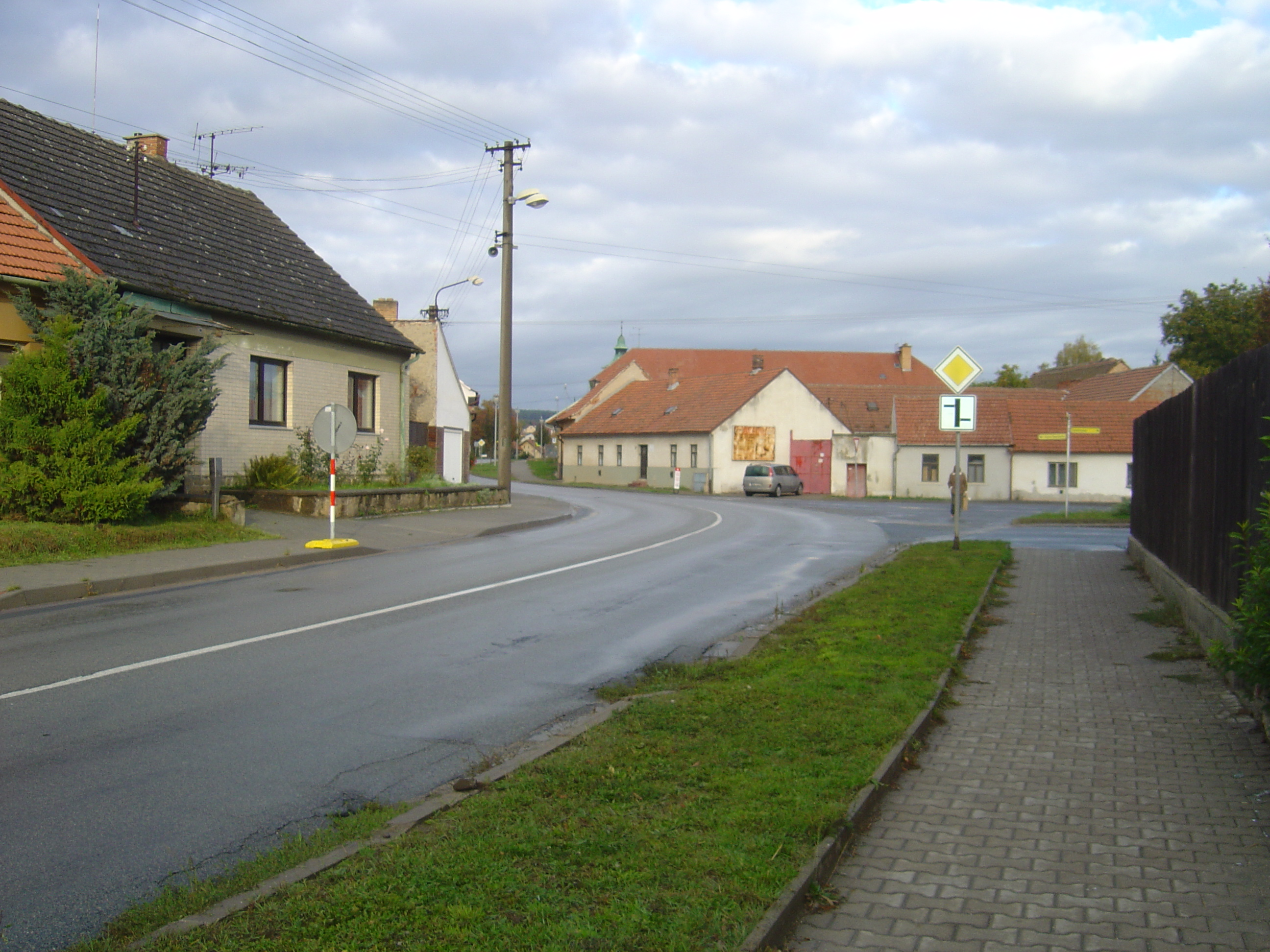 Ostrovačice: the main street Osvobození in north west direction